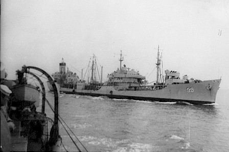 The U.S. Navy fleet oiler USS Canisteo (AO-99) in the Mediterranean Sea in 1951. The picture was taken from the destroyer USS Allen M. Sumner (DD-692).